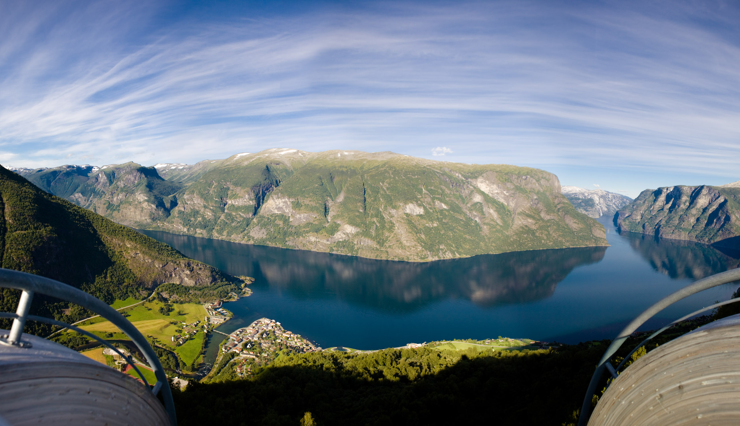 View from observation deck Stegastein in Aurland: the small city Aurlandsvagen below, and Aurlandsfjorden. The image is manipulated and the representation of Aurlandsvangen isn't correct, some parts of it (including the church) are shown twice.